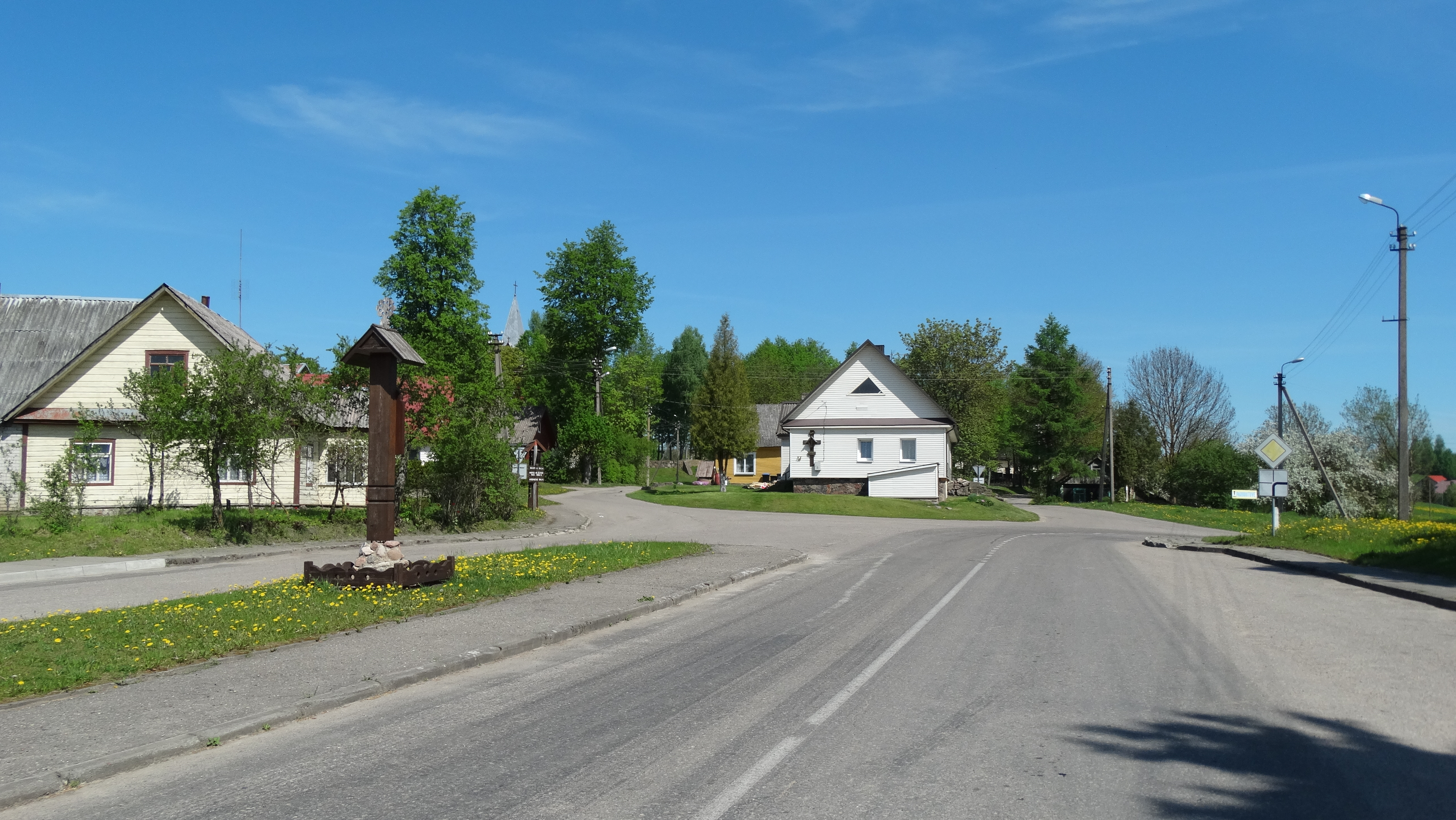 Skudutiškis, Molėtai district, Lithuania